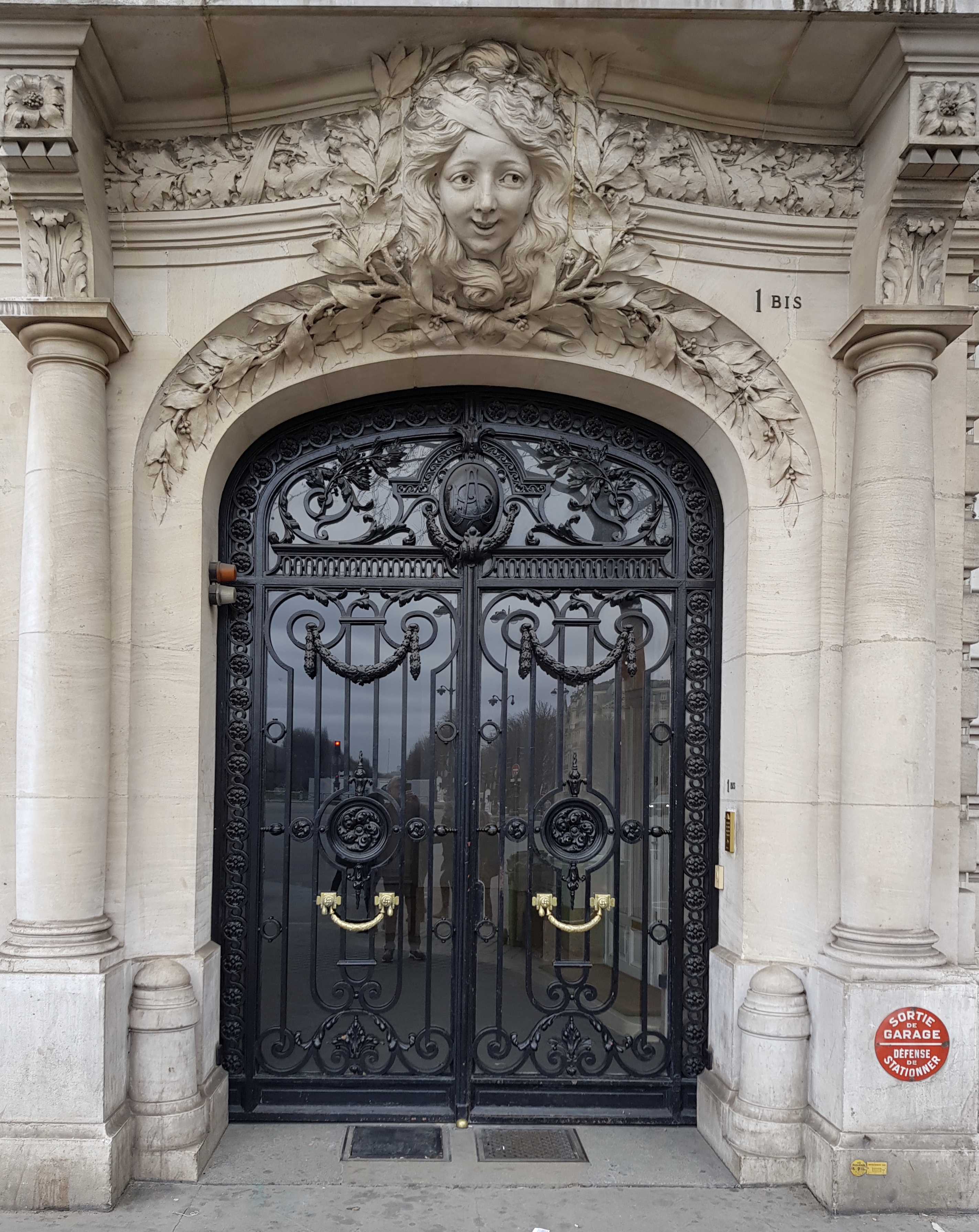 1 bis place de l'Alma (Paris)